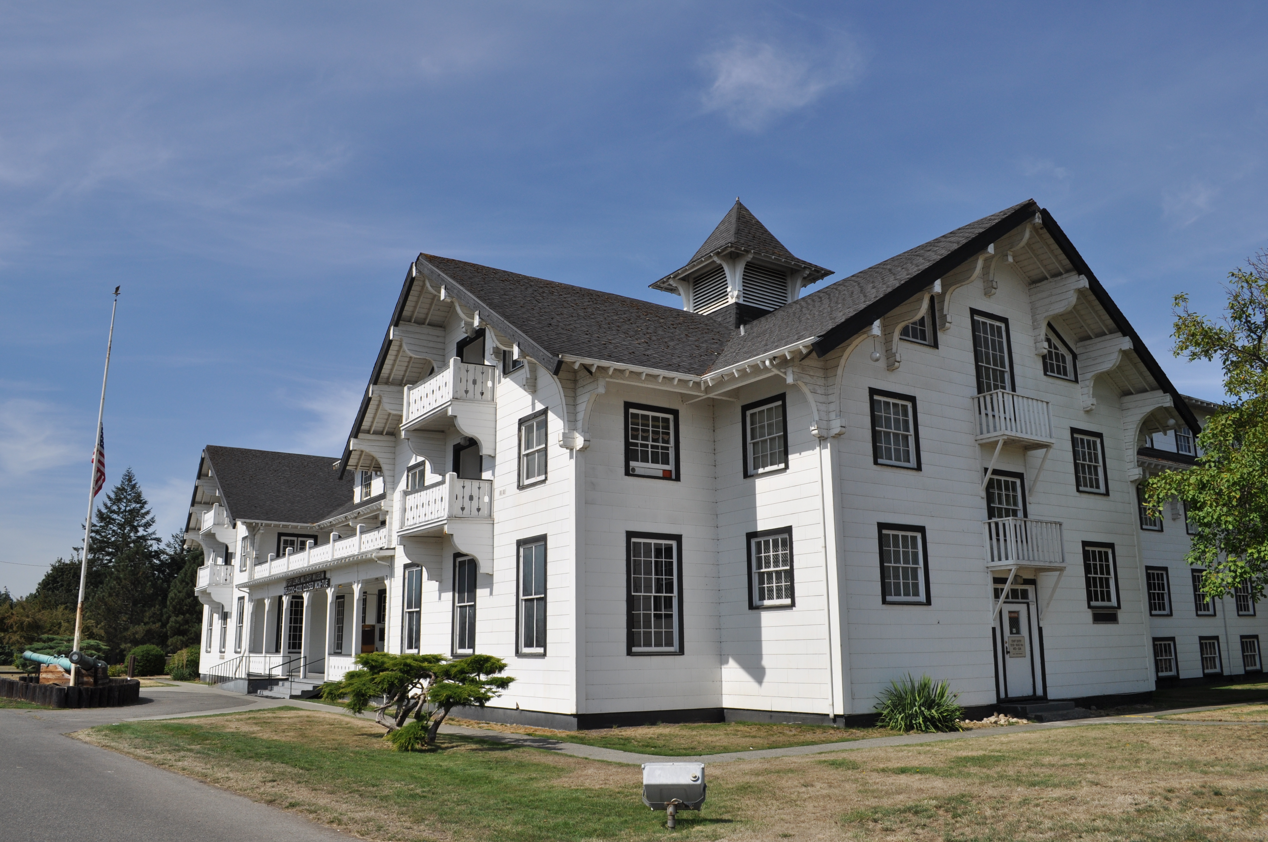 Fort Lewis Military Museum, Fort Lewis, Washington, USA. The building was originally the Red Shield Inn, operated by the Salvation Army, and is listed on the National Register of Historic Places.